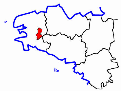 Description: Map for localisazion of cantons of Bretagne region in France Source: made by Hervé Tigier in april 2005 from another large map (published in 1990)